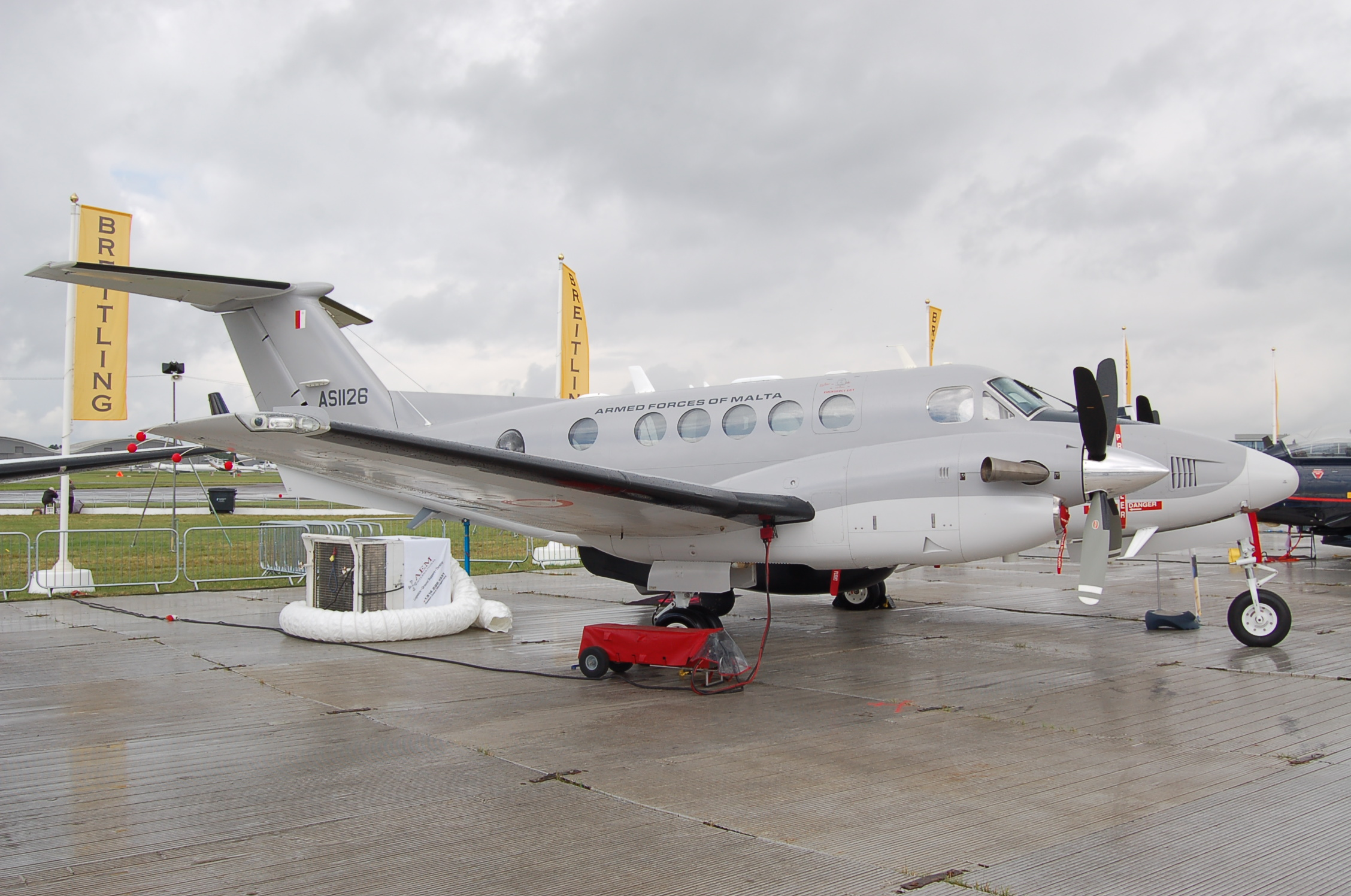 Beech King Air 200 of the Armed Forces of Malta at the Farnborough Air Show,10/07/12.